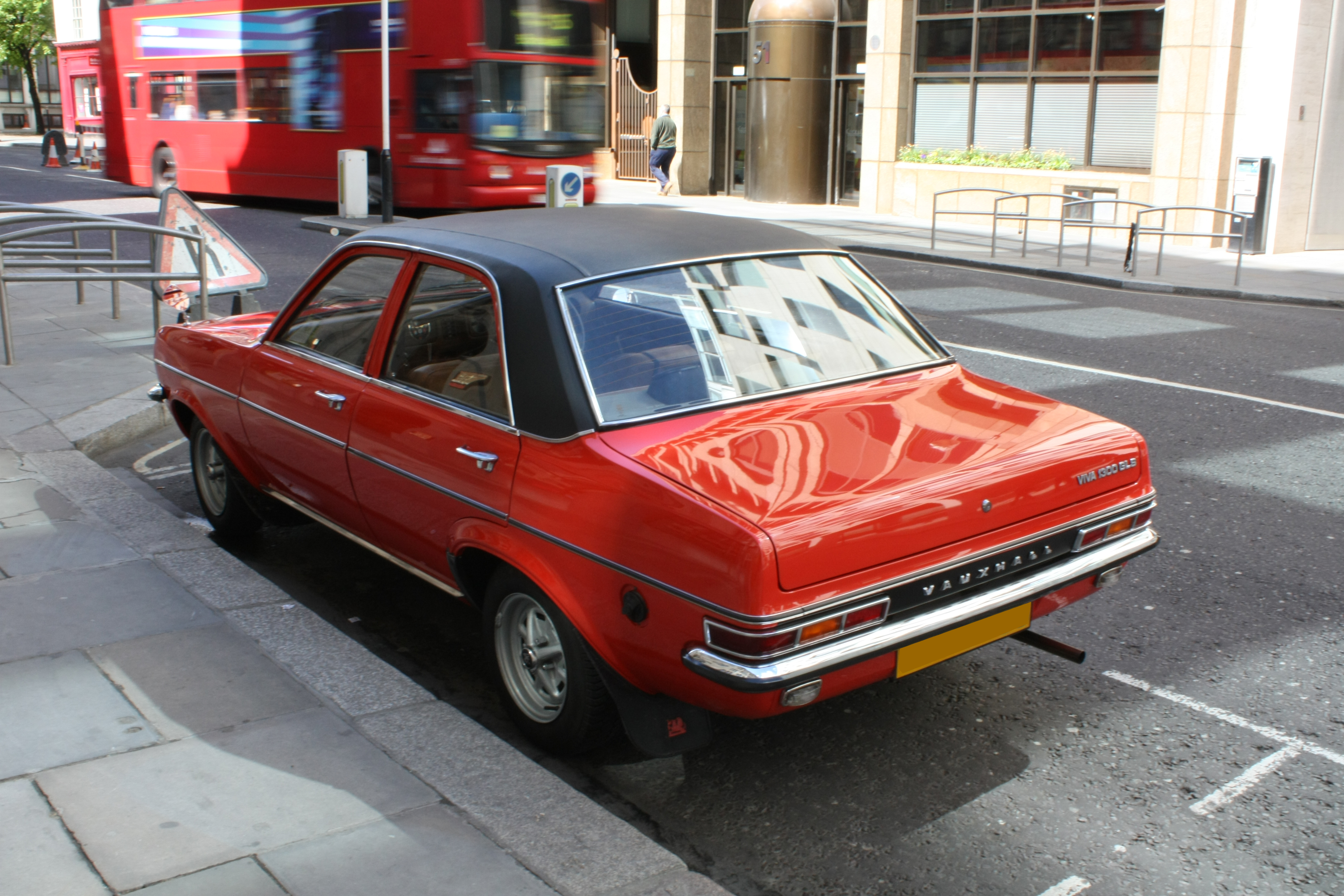 Vauxhall HC Viva 1300 GLS